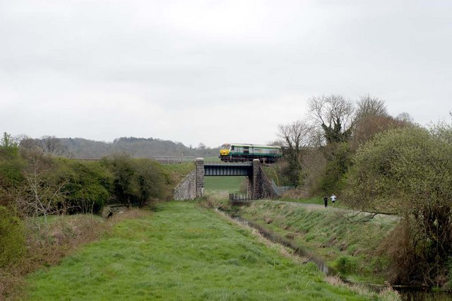 Enterprise crossing the Newry Canal 228 crossing the Newry Canal near Gambles Bridge